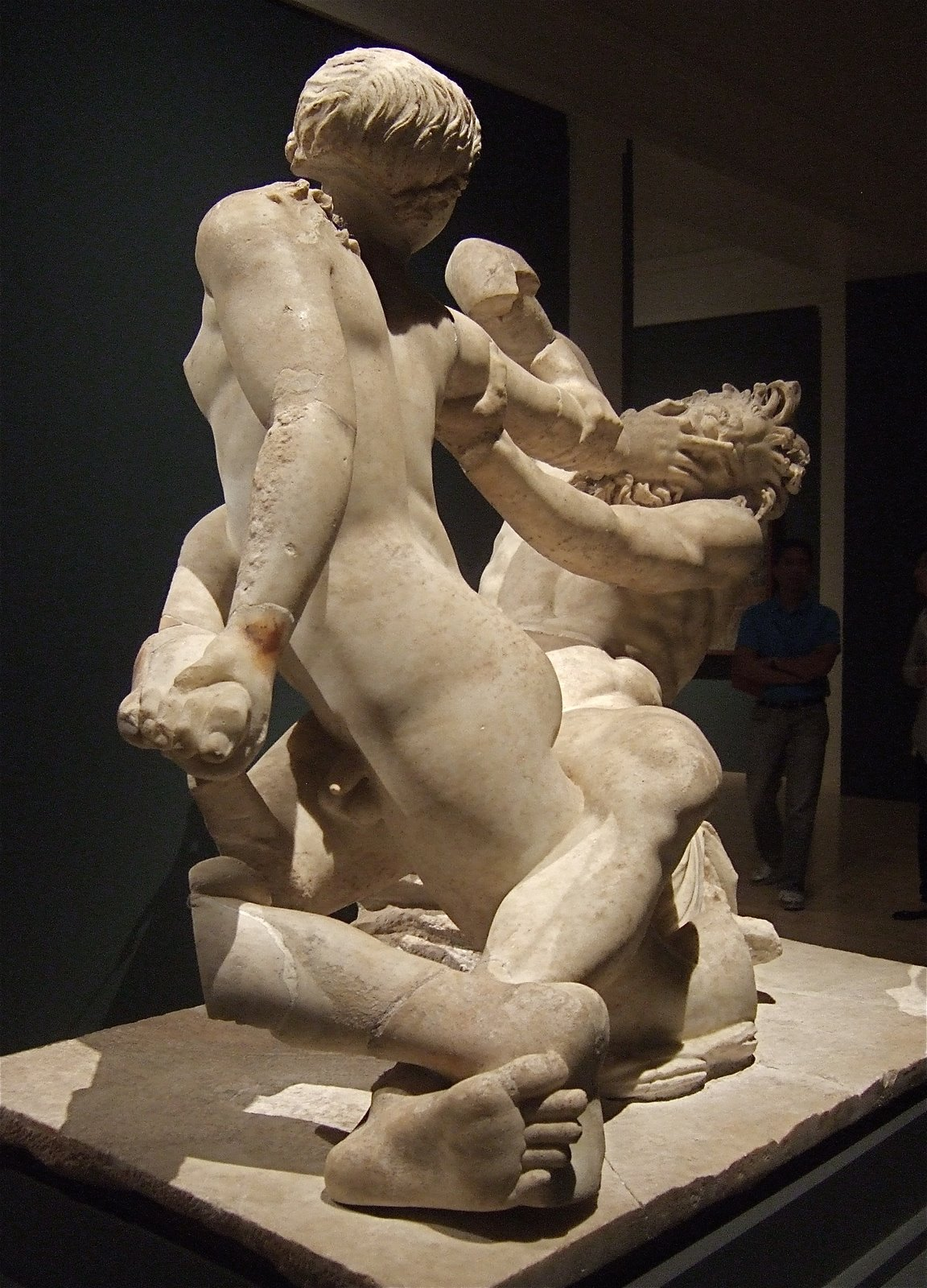 Hermaphroditus fighting off a Satyr from the Villa of Poppaea, Oplontis.